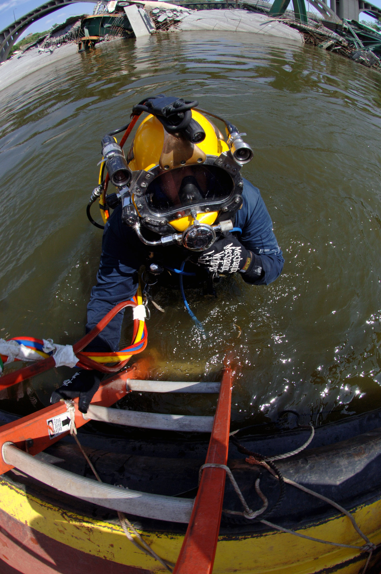 MINNEAPOLIS, Minn. (Aug. 11, 2007) - Navy Diver 1st Class Joshua Harsh attached to Mobile Diving and Salvage Unit (MDSU) 2 from Naval Amphibious Base Little Creek, Va., prepares to leave the surface on a salvage dive in the Mississippi River. MDSU-2 is assisting other federal, state, and local authorities managing disaster and recovery efforts at the site of the I-35 bridge collapse. U.S. Navy photo by Senior Chief Mass Communication Specialist Andrew McKaskle (RELEASED)